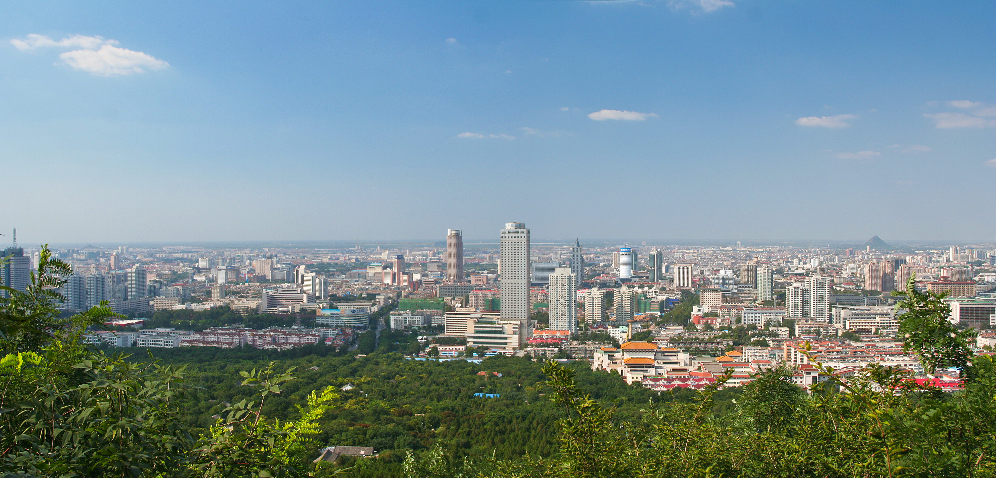 Photograph of the skyline of Jinan, Shandong, China from the Thousand Buddha Mountain to the south of the city.